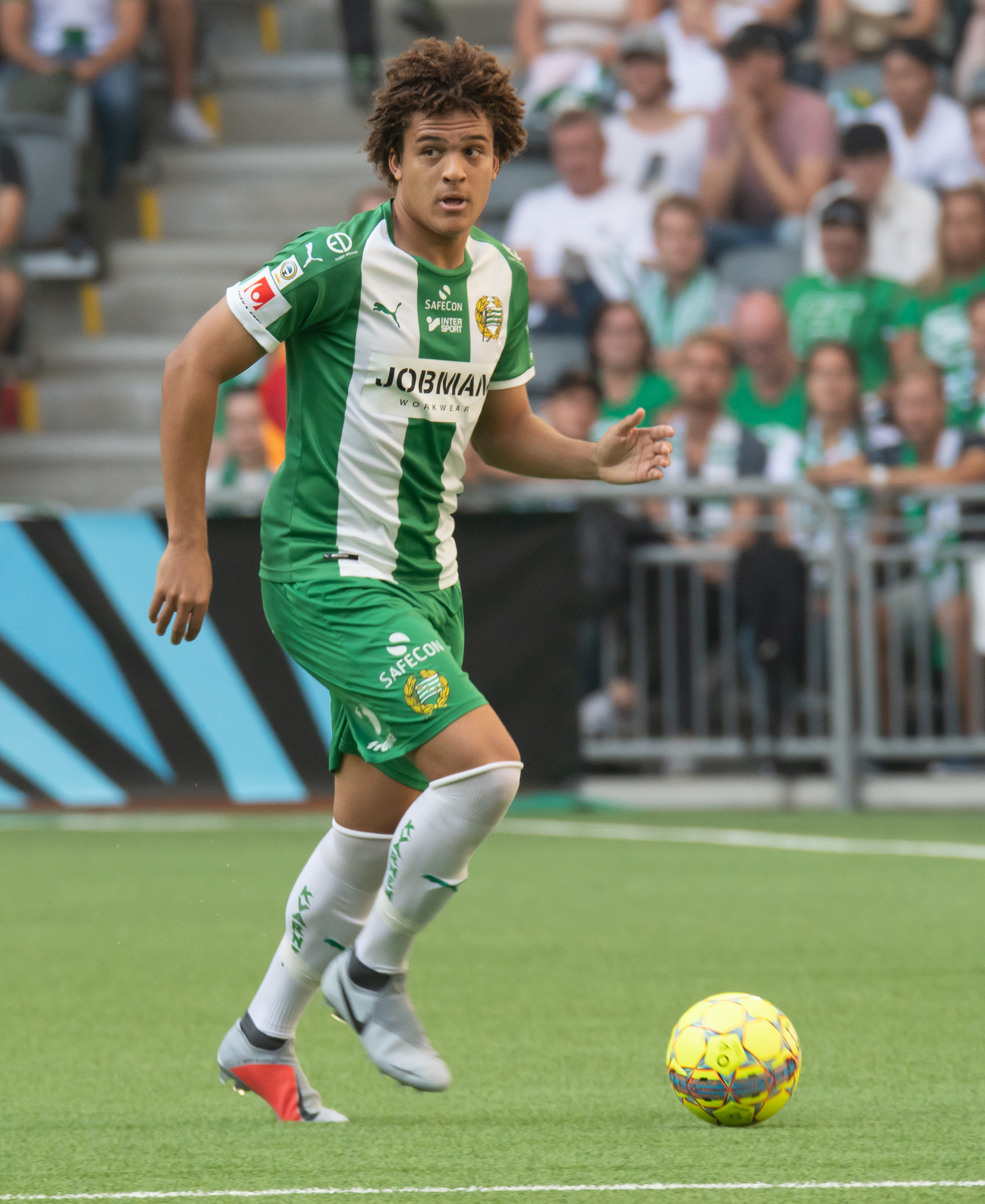 Hammarby-Djurgården 2018-09-03